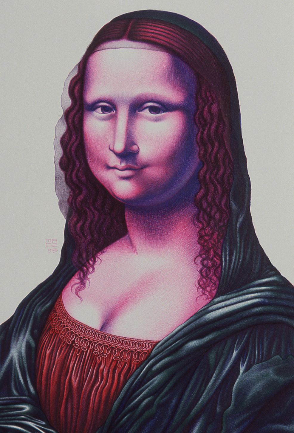 Mona Lisa replica created in ballpoint pen by Lennie Mace, titled "Mona a'la Mace" 1993 (shown cropped), commissioned by Pilot Corp. of America; highlight of the artist's 1993 "Macedonia" exhibition, NYC/USA; featured on CBS News November, 1993.